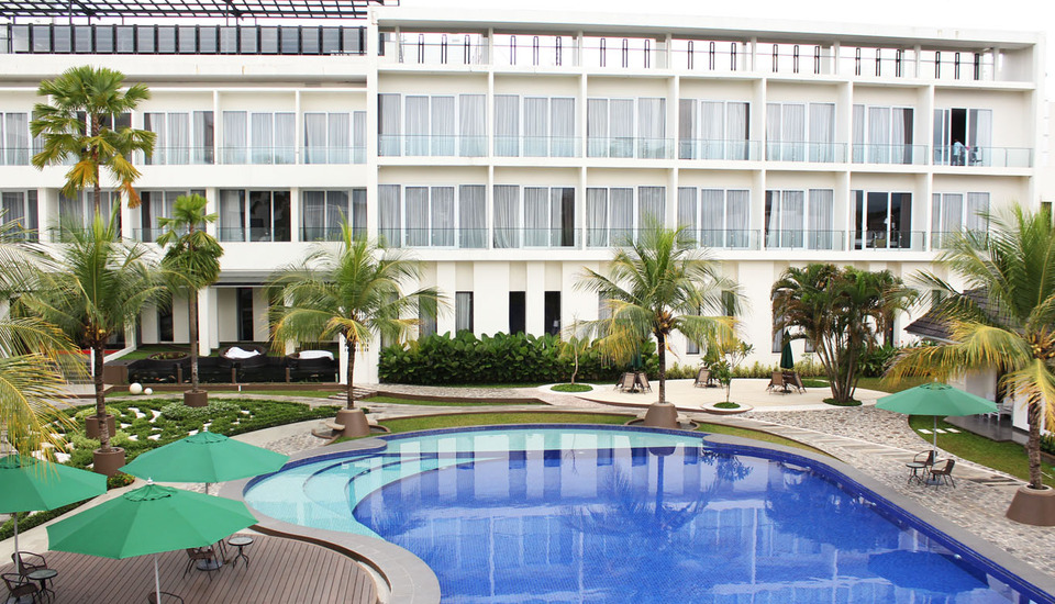 Java Heritage Hotel ****-Purwokerto